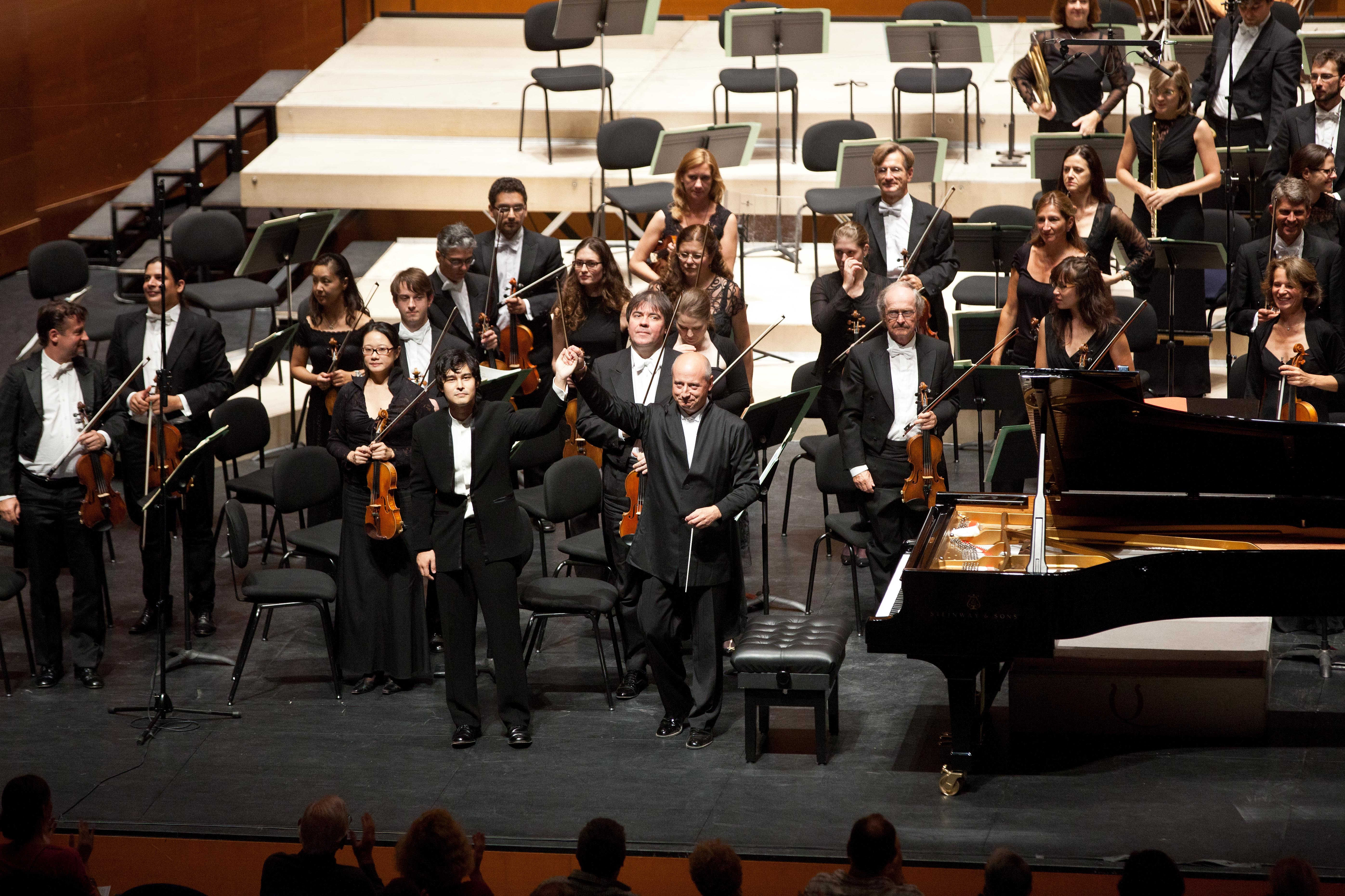 Frankfurt Radio Symphony Orchestra